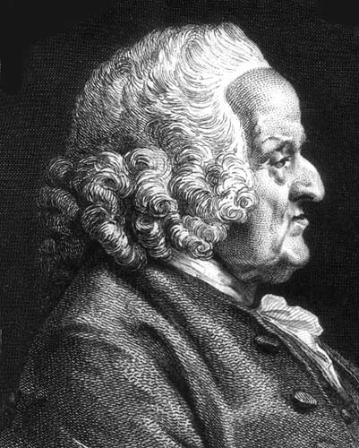 Portrait of Joseph Pellerin (1684-1782), French statesman and pioneer numismatist